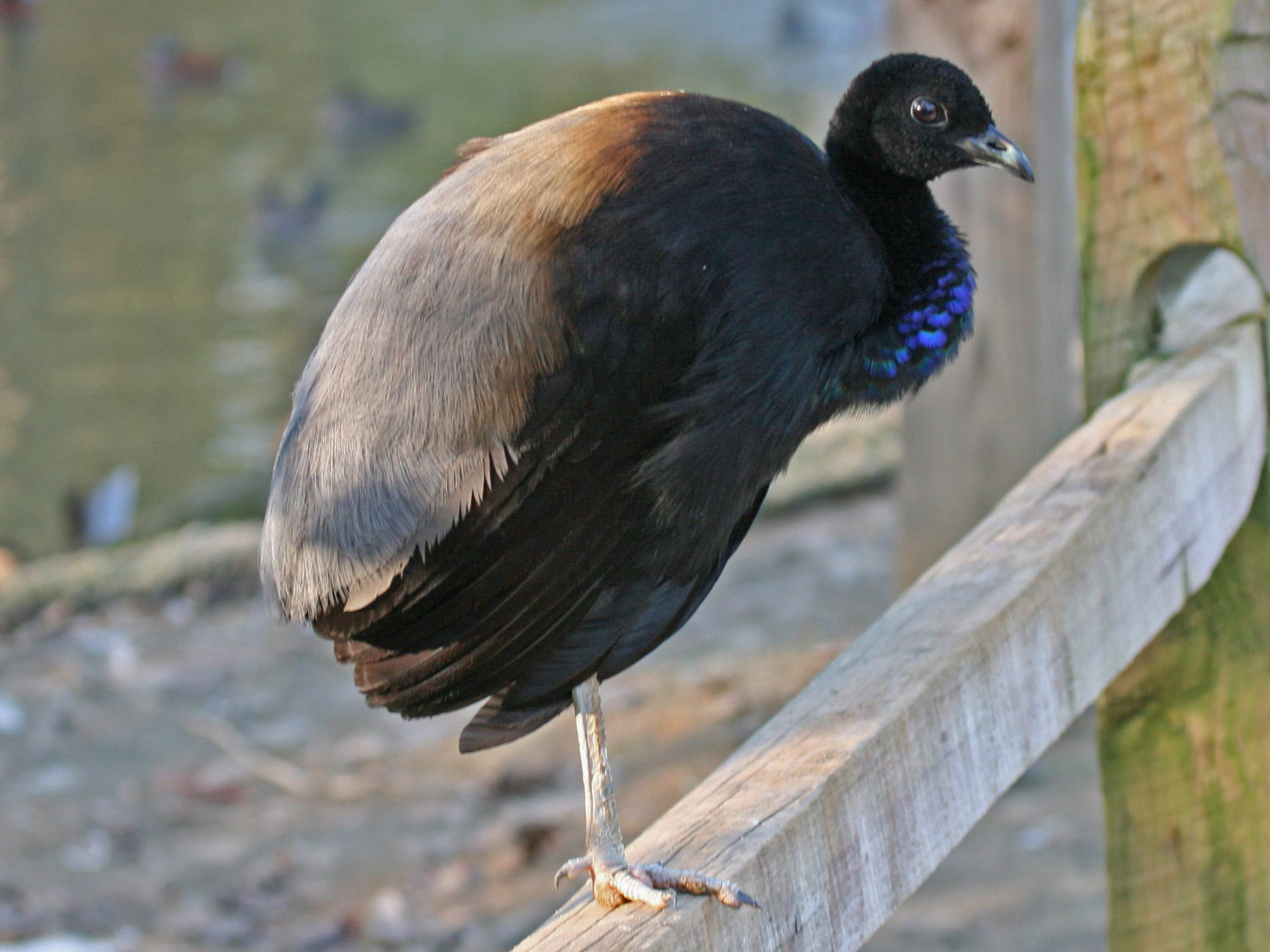 Grey-winged Trumpeter (Psophia crepitans) at Sylvan Heights Waterfowl Park in Scotland Neck, North Carolina.